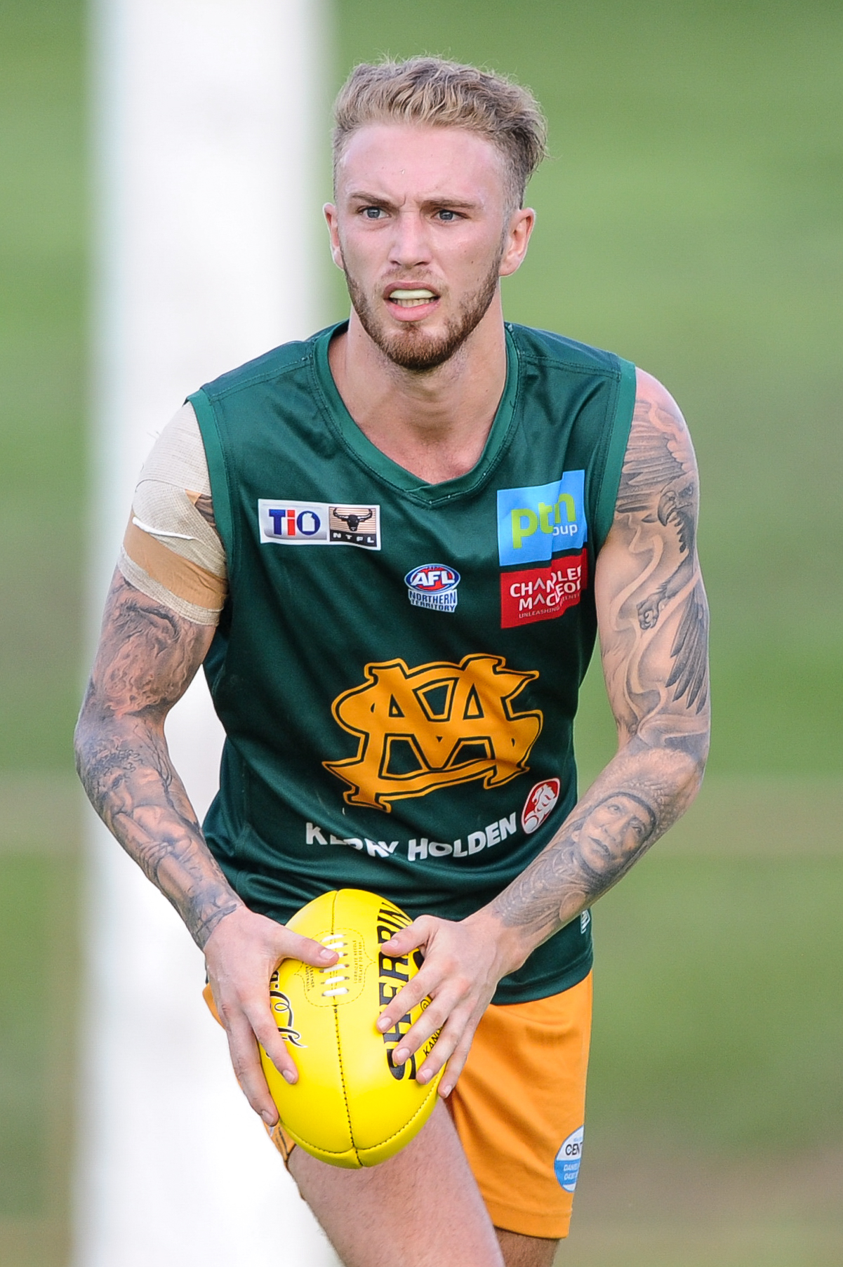 Jaden McGrath of the St Mary's Football Club in the NTFL round 7 match against the Palmerston Football Club on 18 November 2017 at Asbuild Stadium in Palmerston, Northern Territory.